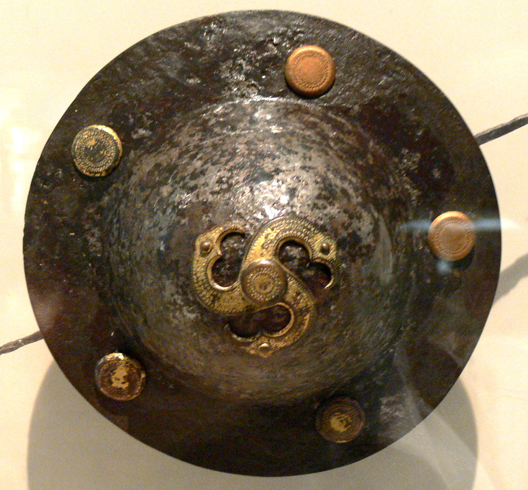 German National Museum ( Nuremberg / Germany ). Lombard shield boss ( 7th century ), from Fornovo San Giovanni, Italy.